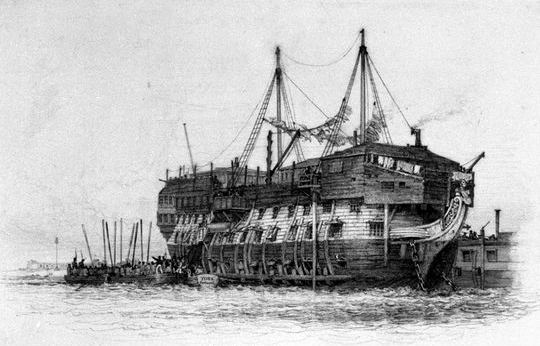 HMS York shown in Prison-ship in Portsmouth Harbour with the convicts going on board. Plate from Shipping and Craft by E W Cooke, 1829